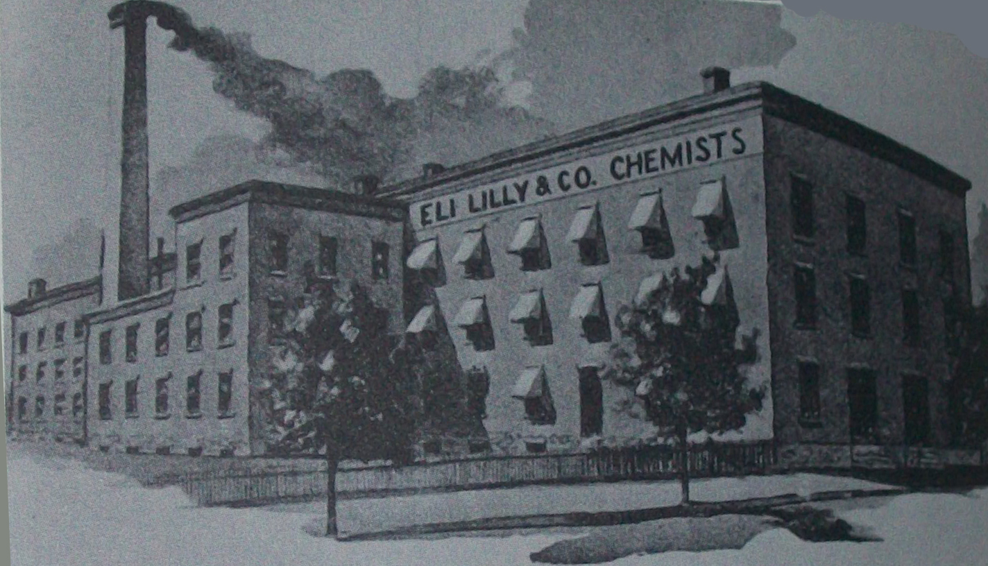 Eli Lilly and Company's McCarty Street production plant in Indianapolis Indiana from an 1886 newspaper advertisement